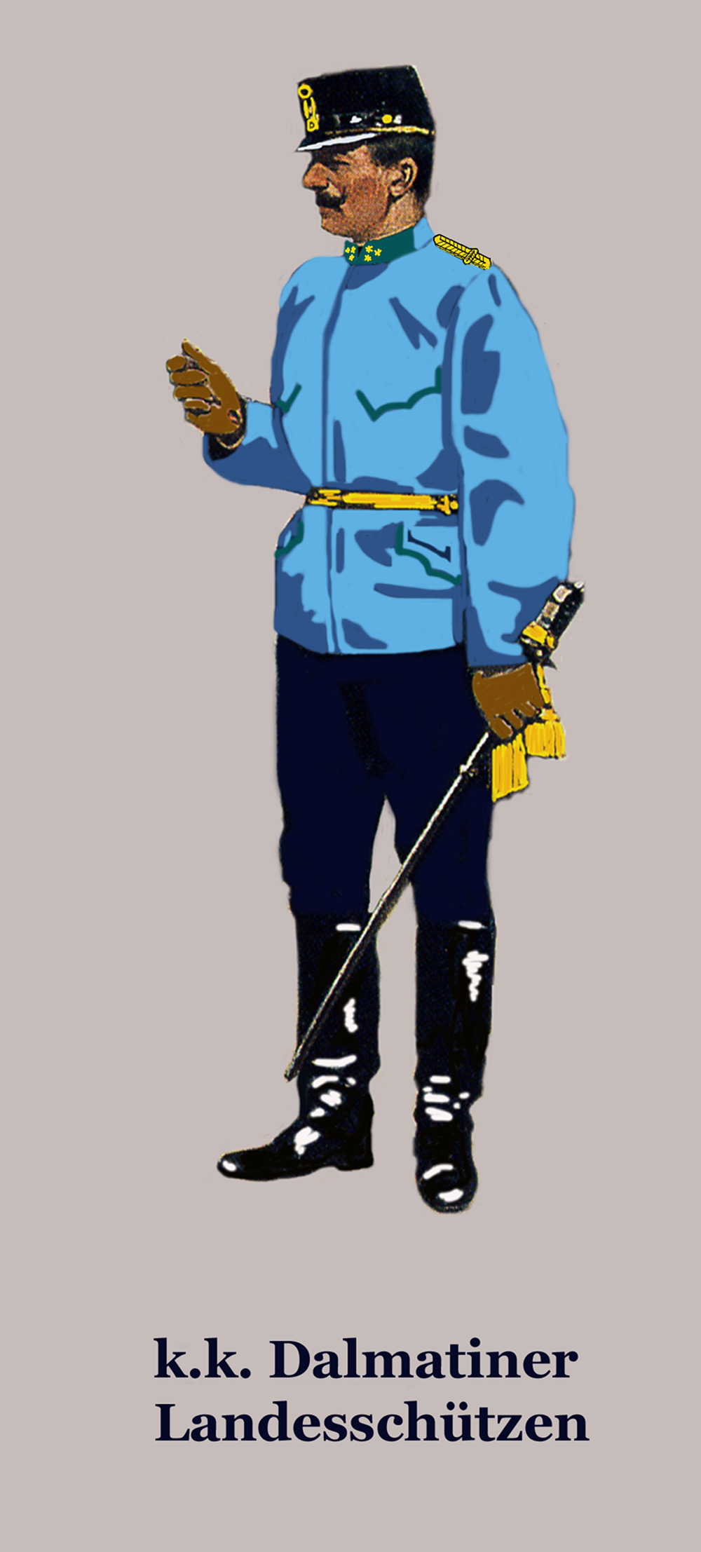 1st Lieutenant of the Austria-Hungarian Mounted Dalmatian Rifles (k.k. Reitende Dalmatiner Landesschützen-Division) in battle dress